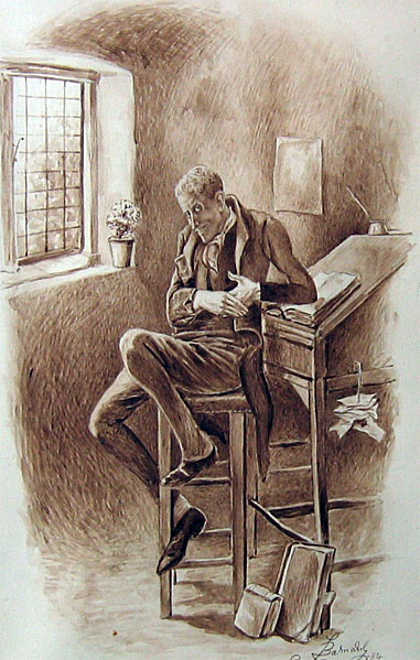 Uriah Heep from "David Copperfield", Ink and wash drawing